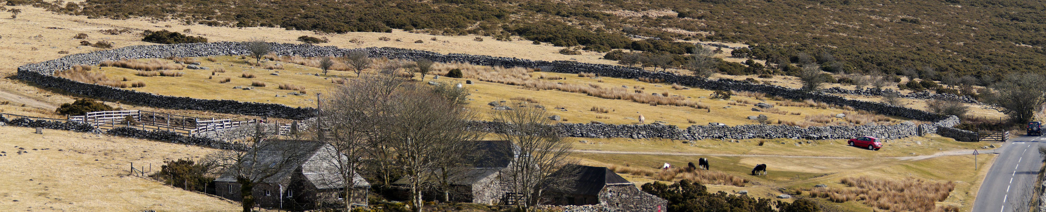 This shows Dunnabridge Pound on Dartmoor, Devon, UK. This is a pound which was used to hold animals in when they had been brought off the open moorland for sale etc. This one has been used for hundreds of years.